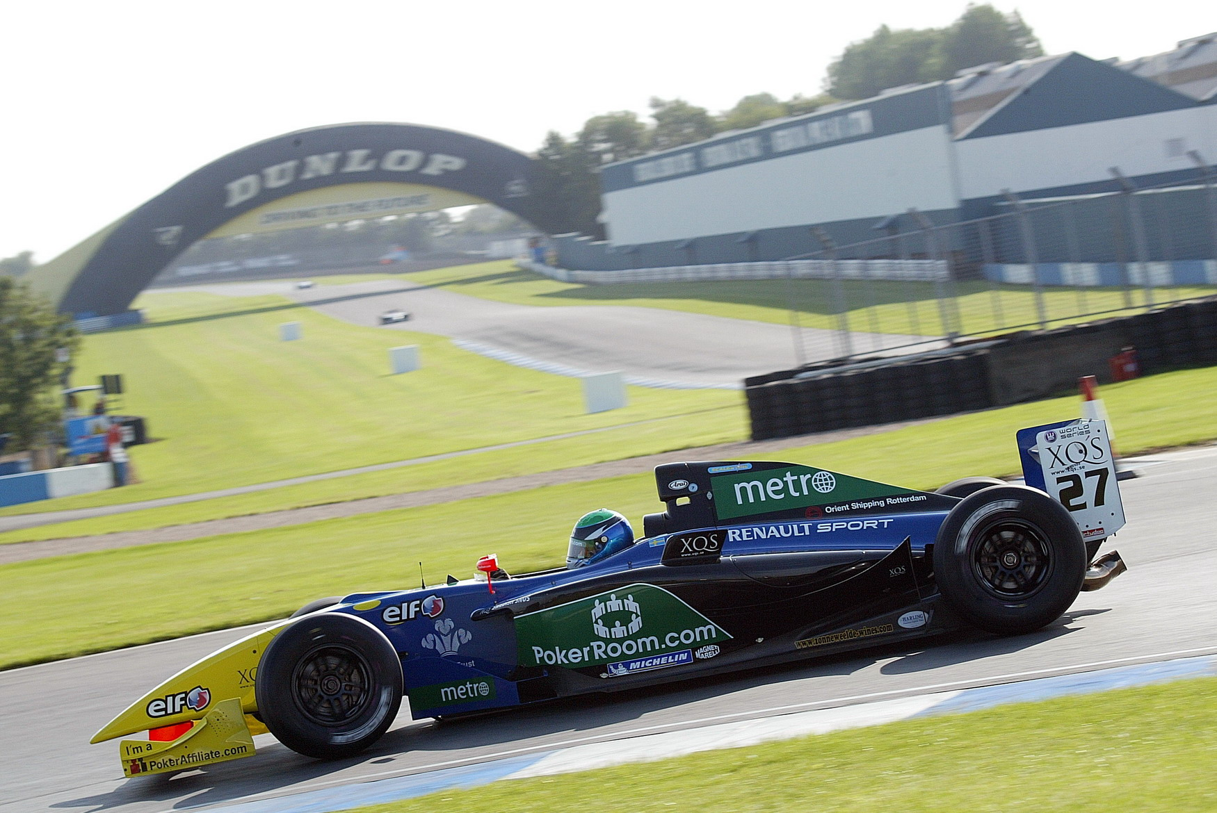 Alx Danielsson racing at Donington Park, a World Series by Renault race.